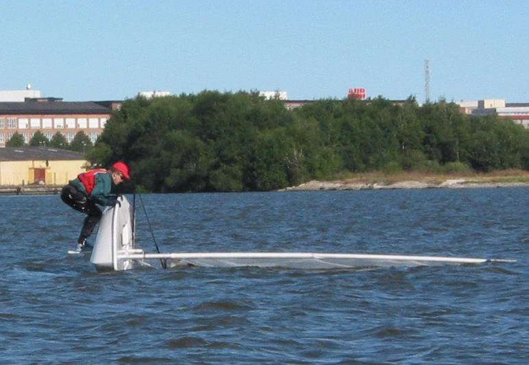 User:Etnoy is rightening his capsized Laser Standard dinghy